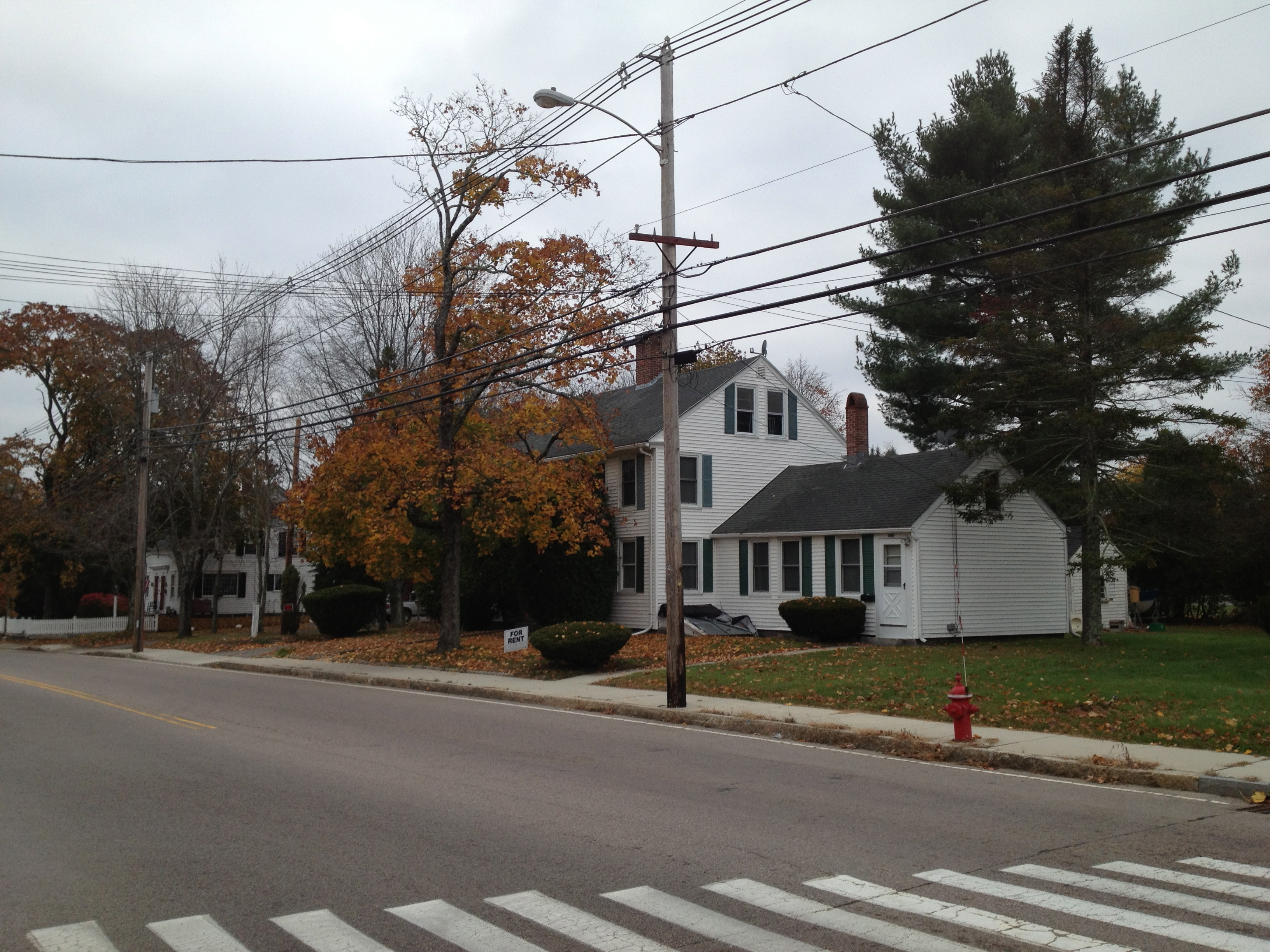 Photo taken on Mendon Street in Wheelockville section of Uxbridge, MA. Wheelockville is a mill village that dates from the 1820s. The American Industrial Revolution started in this region using water powered textile mills